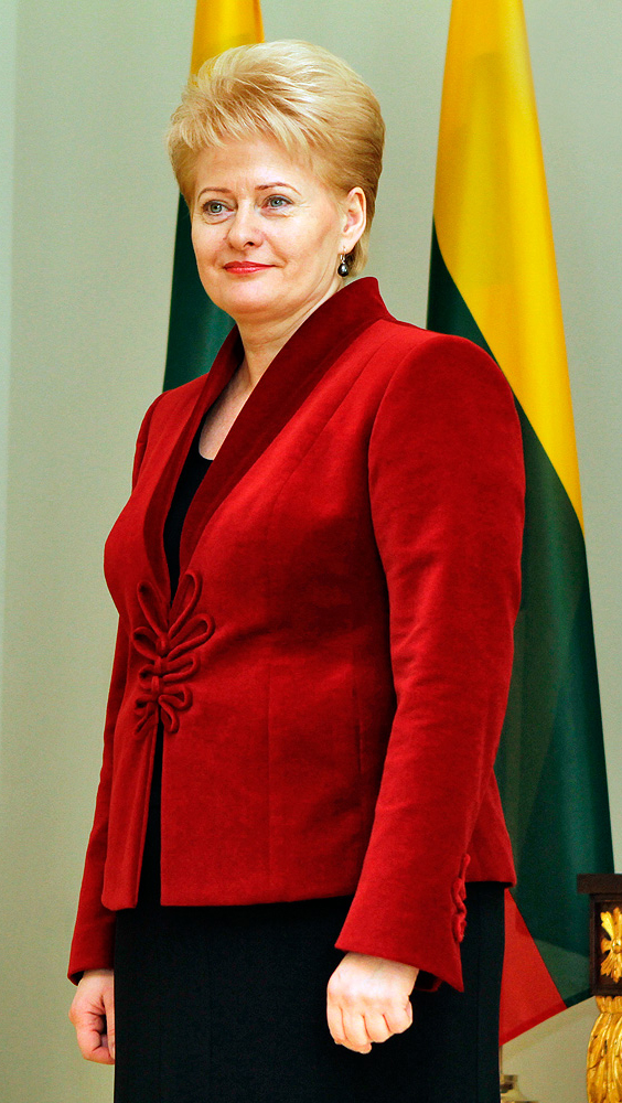 President of Lithuania Dalia Grybauskaitė